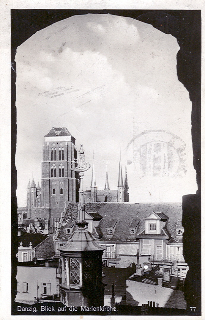 Gdańsk - St. Mary's Church 1942.